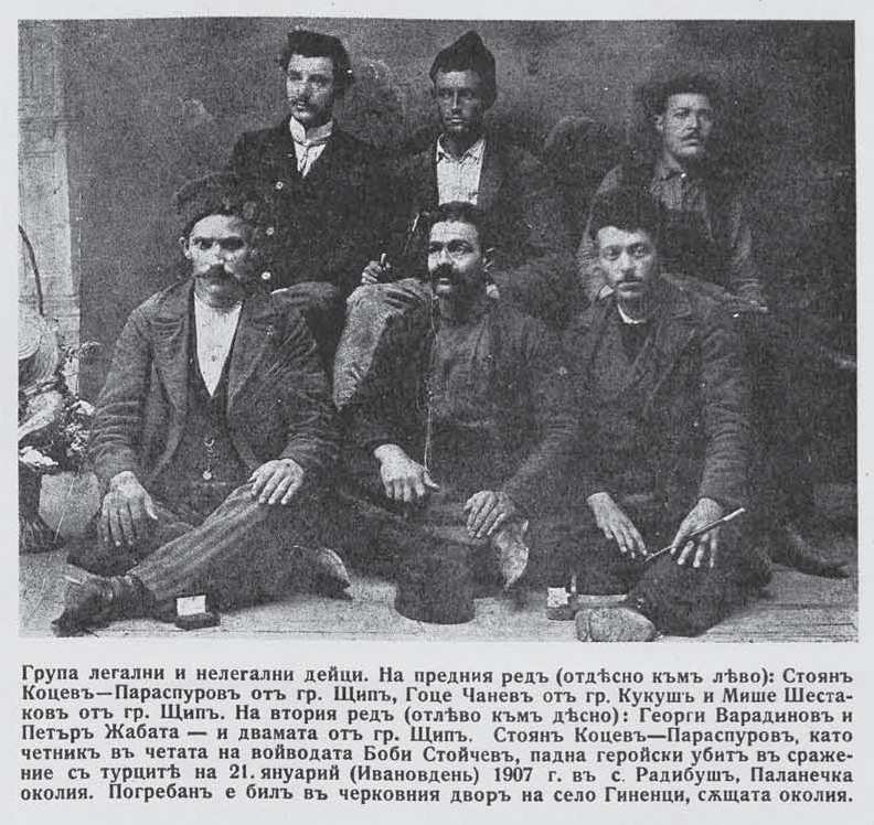 Portrait of Ivan Paraspunov and other IMARO members